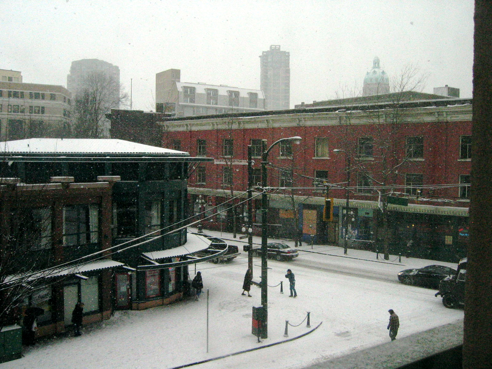 Wintry Gastown